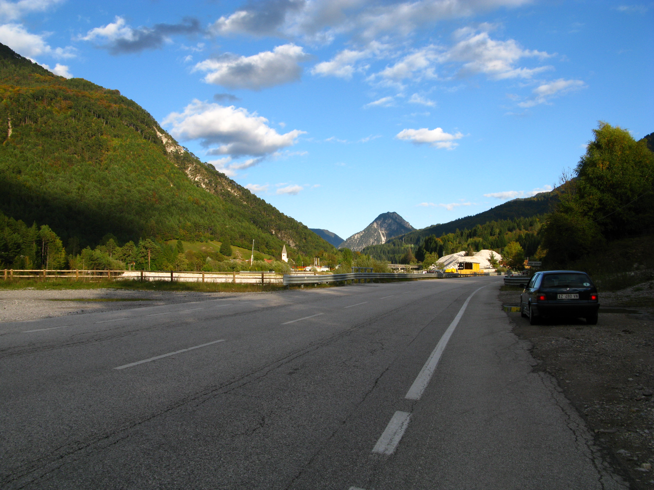 Santa Caterina in the community of Malborghetto in the Val Canale / Friuli-Venezia Giulia / Italy / EU.